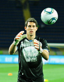 This is a retouched picture, which means that it has been digitally altered from its original version. Modifications: cropped picture. The original can be viewed here: Martin Silva.jpg. Modifications made by Soul Train.